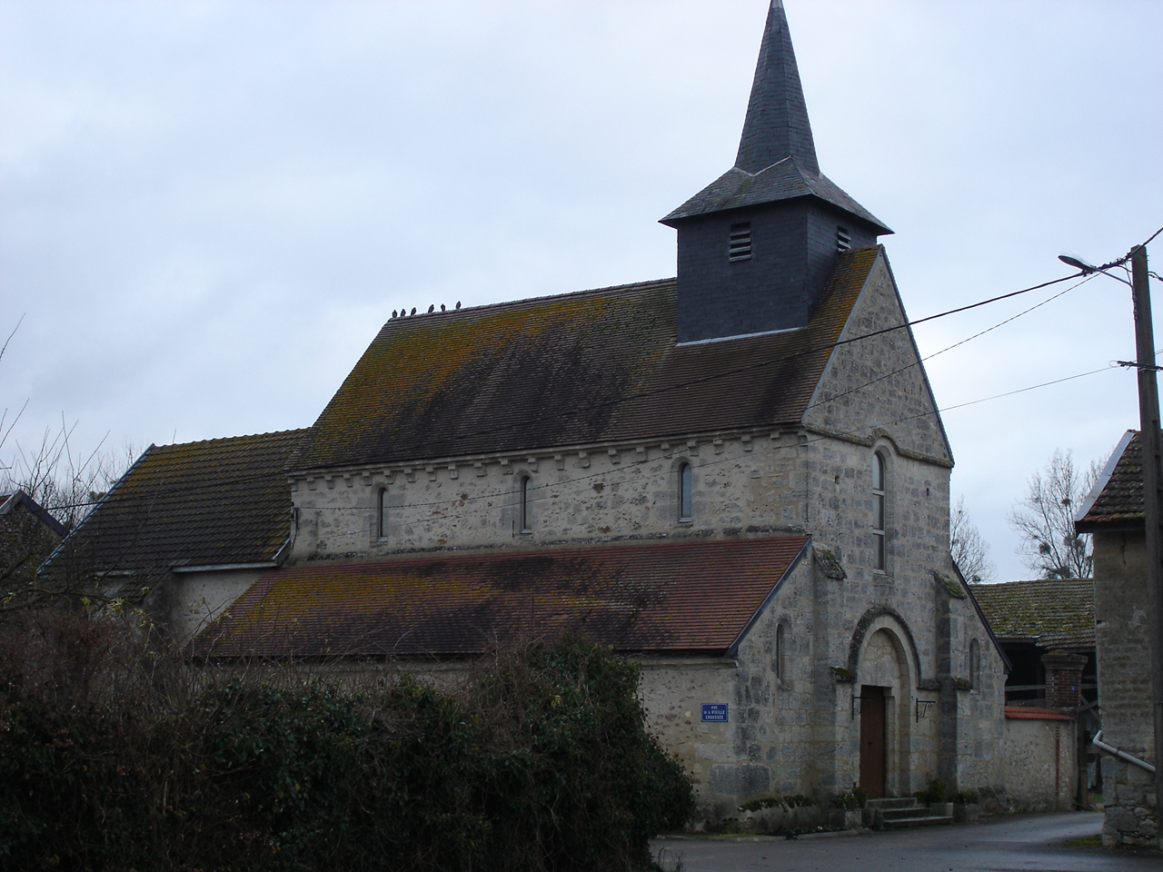 Saint Pierre church of Voipreux (12th century), Marne , France